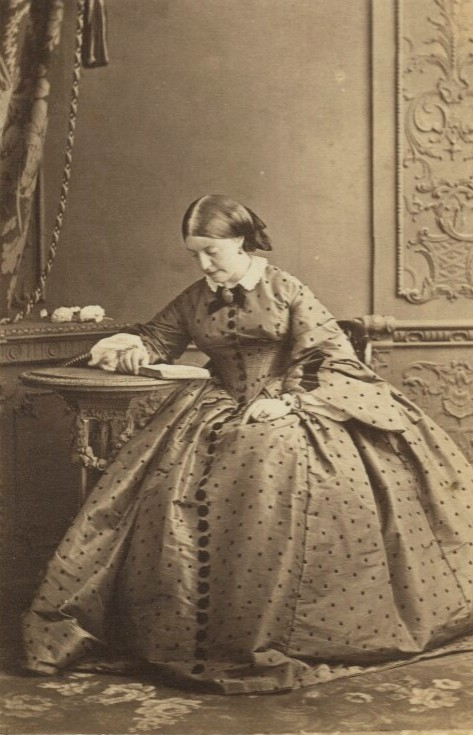 Portrait of Amelia Charlotte Scott-Murray (née Fraser) (1824–1912), wife of Charles Robert Scott-Murray.